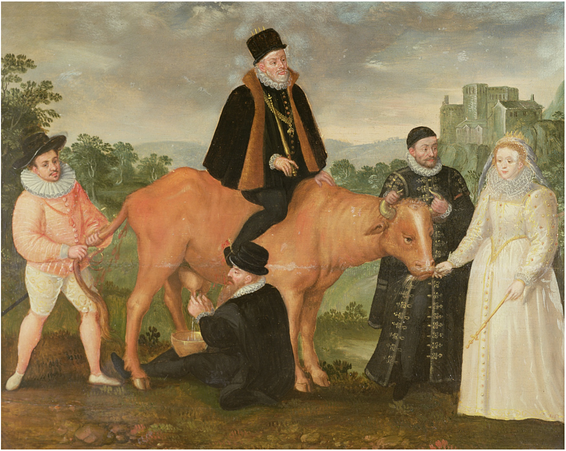 Queen Elizabeth I Feeds the Dutch Cow. Oil on panel, 39.4 × 49.5, artist unknown. This satirical painting depicts a cow which represents the Dutch provinces. King Philip II of Spain is vainly trying to ride the cow, drawing blood with his spurs. Queen Elizabeth is feeding it while William of Orange holds it steady by the horns. The cow is defecating on the Duke of Anjou, who is holding its tail. The picture was painted in the period following the visit of François, Duke of Anjou (brother of King Henry III of France) to Queen Elizabeth's court in 1581–82 to discuss his marriage proposal and his military support for the Anglo-Dutch alliance against the Spanish. Anjou's subsequent mission to the Netherlands met with disaster when his army was massacred by the citizens of Antwerp in early 1583. William of Orange was assassinated the following year. The dating of the picture to about 1586 is based on its use of an image of Philip, by William Key, engraved in that year. (Reference: Hearn, p. 87.)